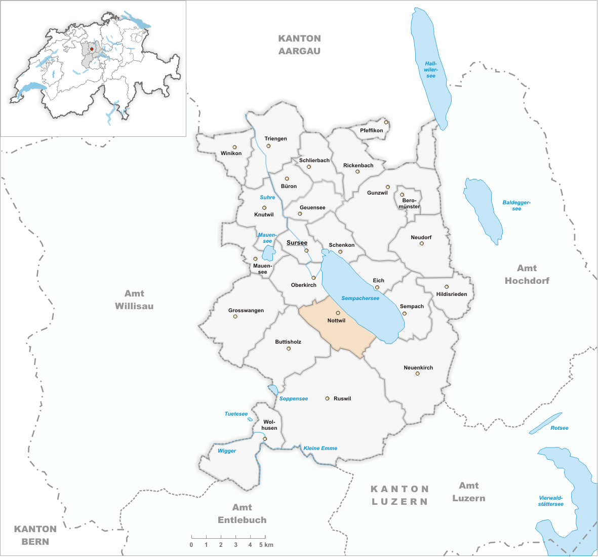 Municipality Nottwil